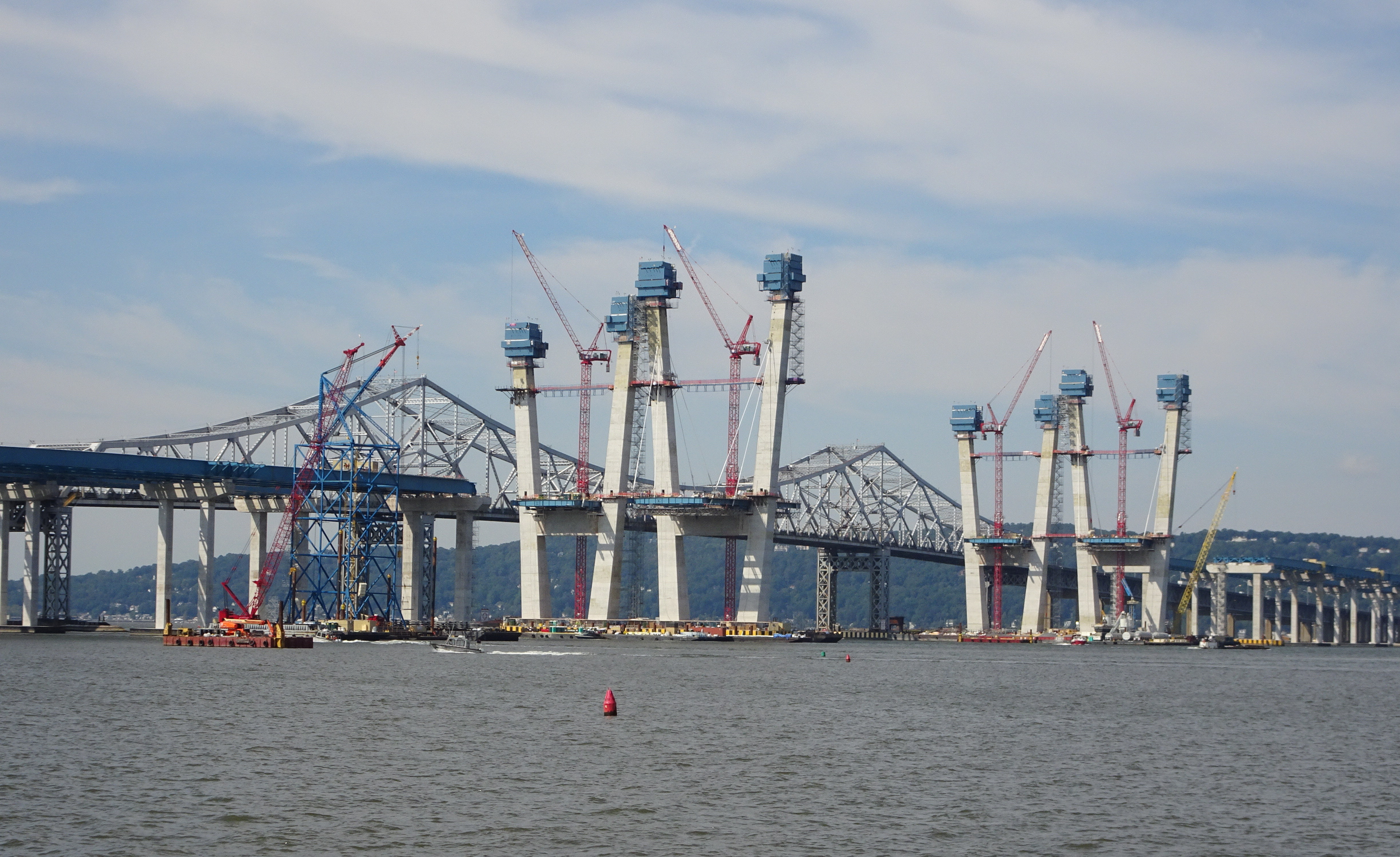 Looking southwest from Pierson park at new bridge construction on a sunny late morning